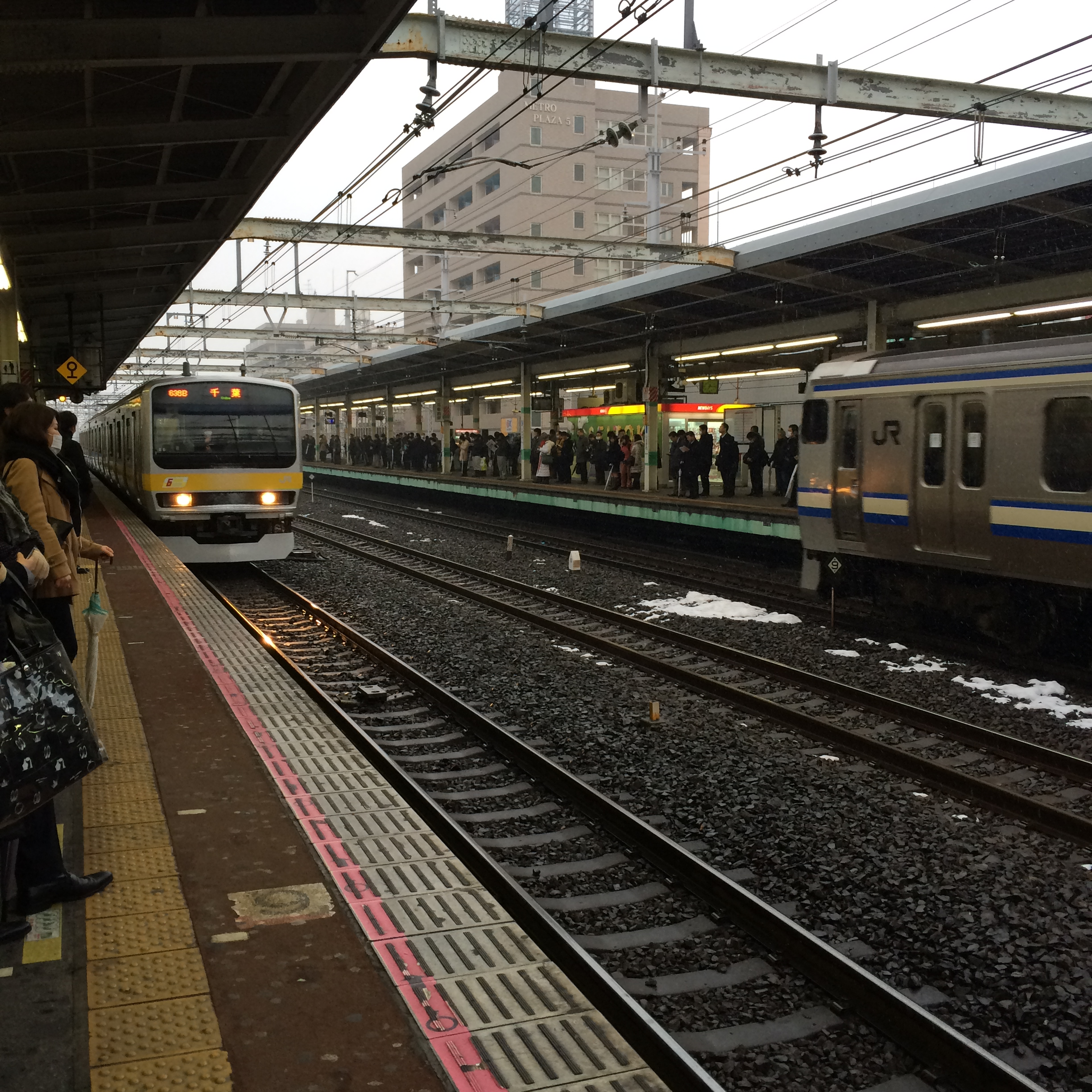 Chuo-Sobu Line (left) and Sobu Line Rapid (right) trains arriving at Ichikawa Station in Ichikawa, Chiba Prefecture, Japan